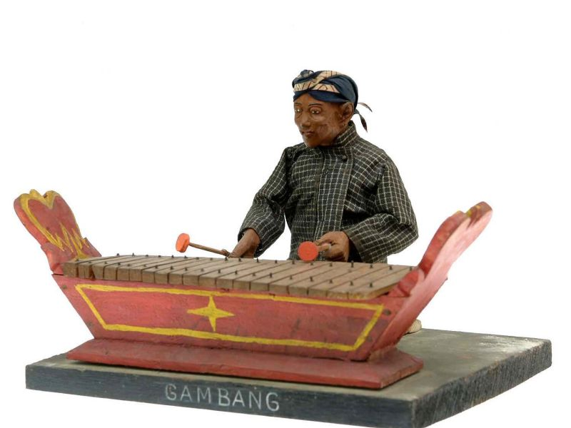 Model of a wooden xylophone with player